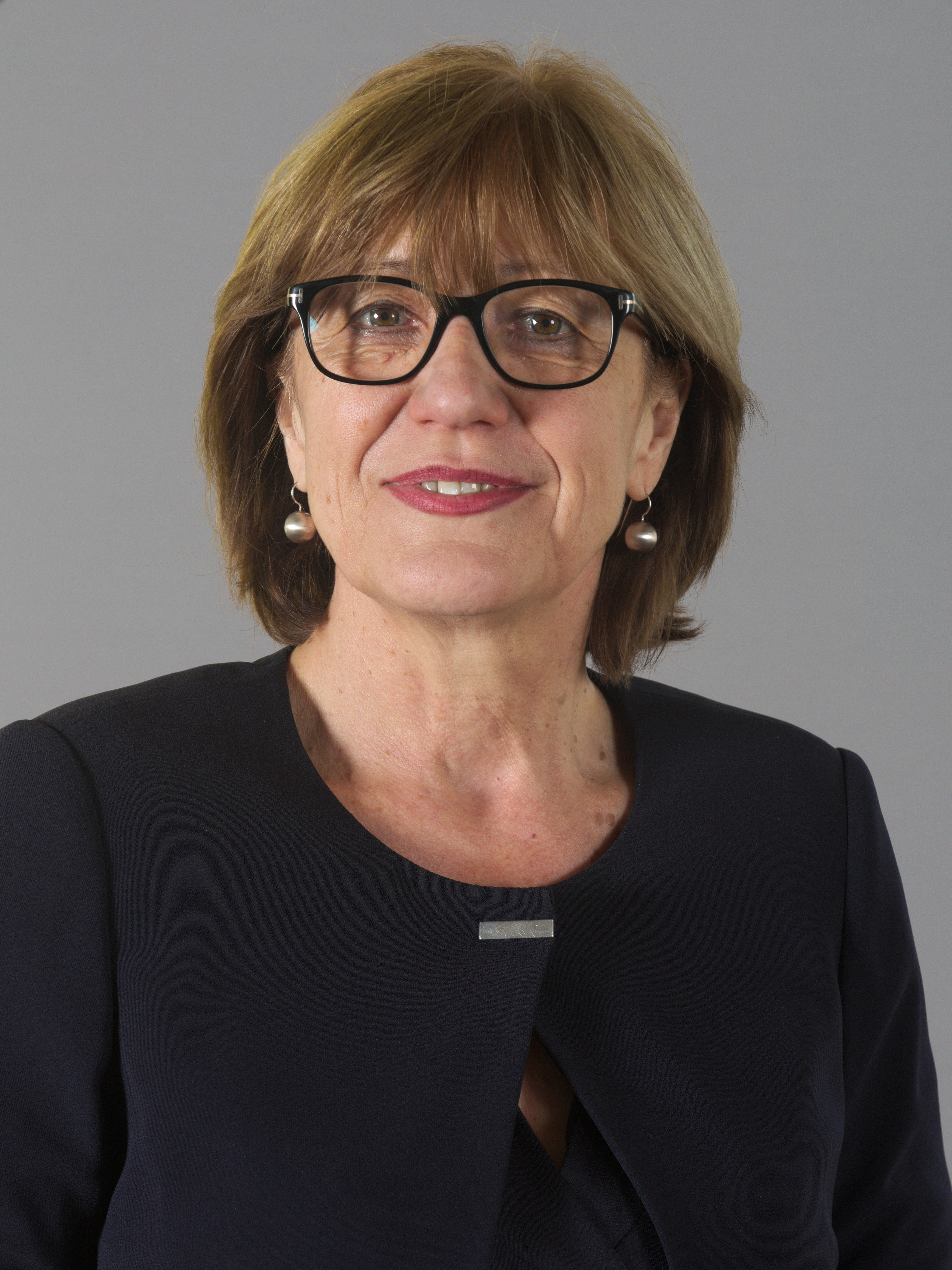 Austrian politician Anneliese Junker